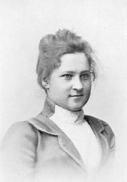 Photograph of the Finnish polytechnical engineer Jenny Markelin-Svensson (1882–1929).